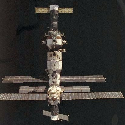 The Russian space station Mir as seen from the Space Shuttle Discovery during STS-63 in February 1995.